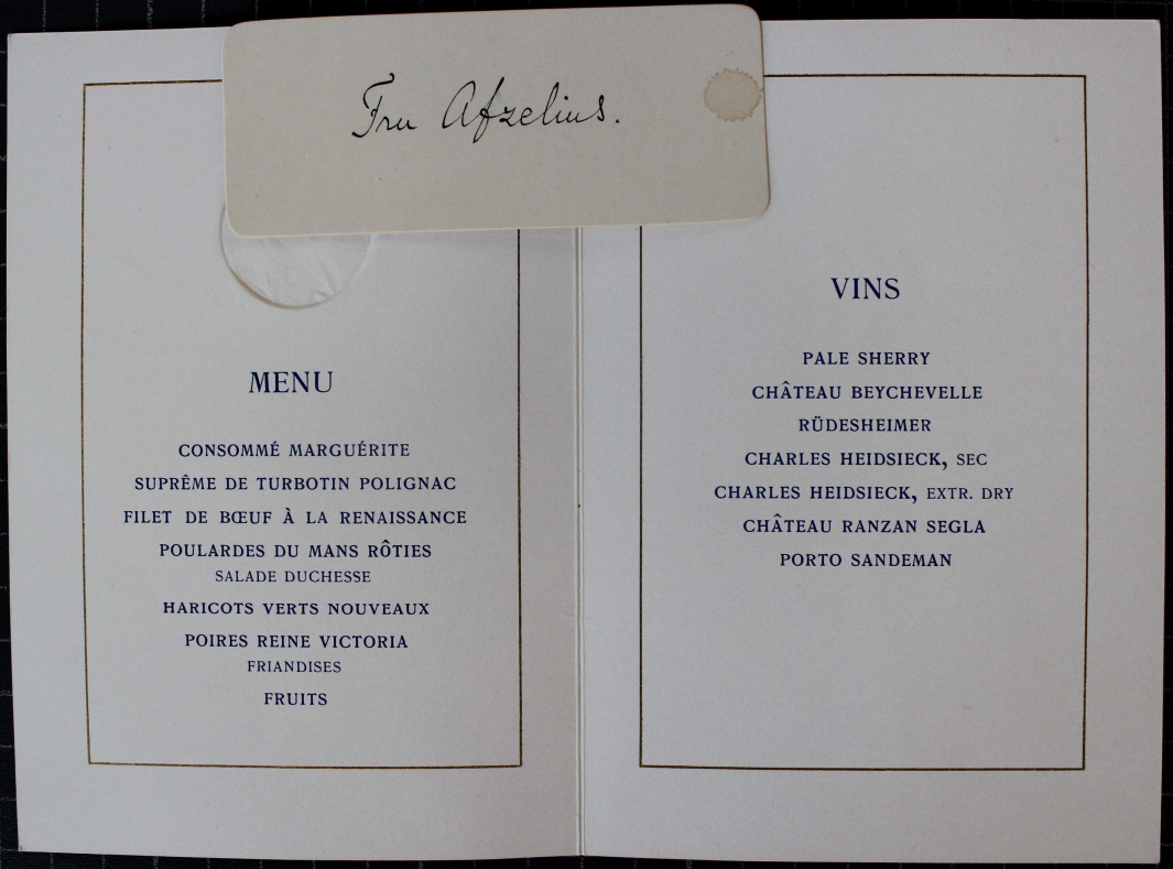 The Nobel banquet menu from 1909 possible from a Mrs. Afzelius.